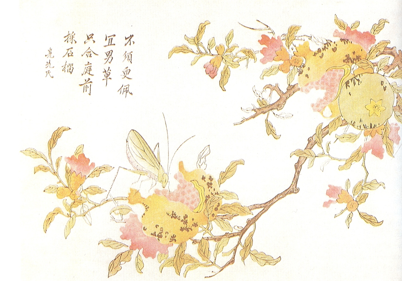 Pomegranates on a branch, a color woodblock print on paper, dated 17th century, Ming Dynasty of China, from the Kaemper Series, now in the British Museum, London.